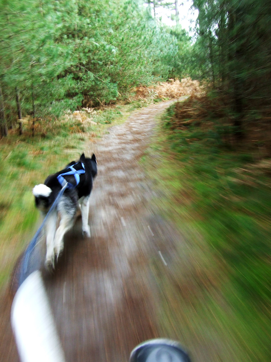 Bikejoring with a siberian husky in Thetford Forest